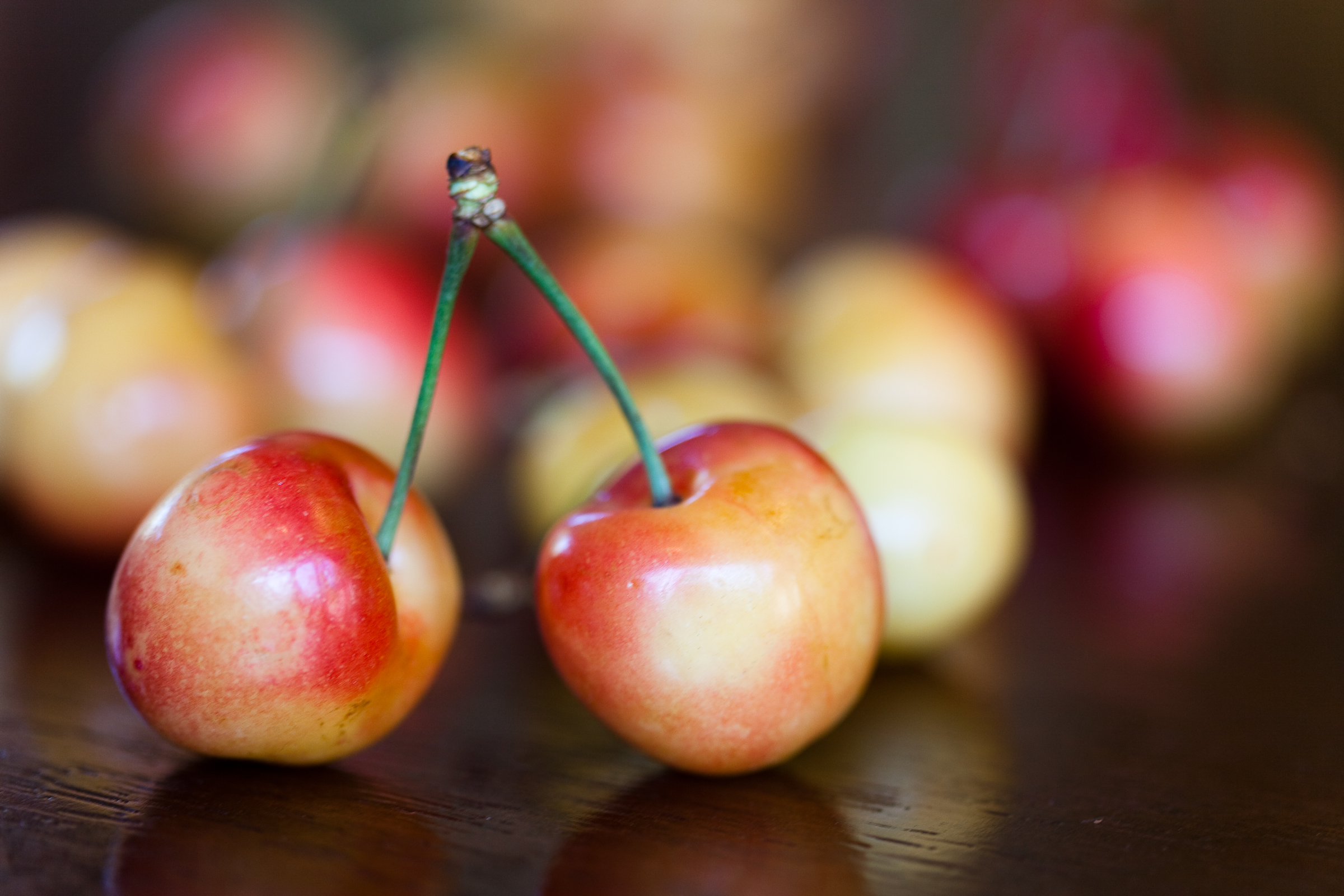 I love when Rainier Cherries are in season